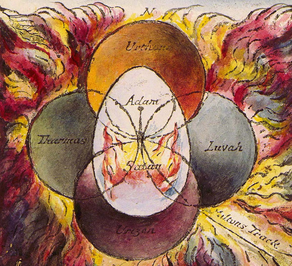 Croped section from a plate in Blake's "Milton:A Poem" Copy C currently held at the New York Public Library. Image is Object 34 in the copy, hand-coloured after printing. This version depicts the relationship of the Four Zoas.